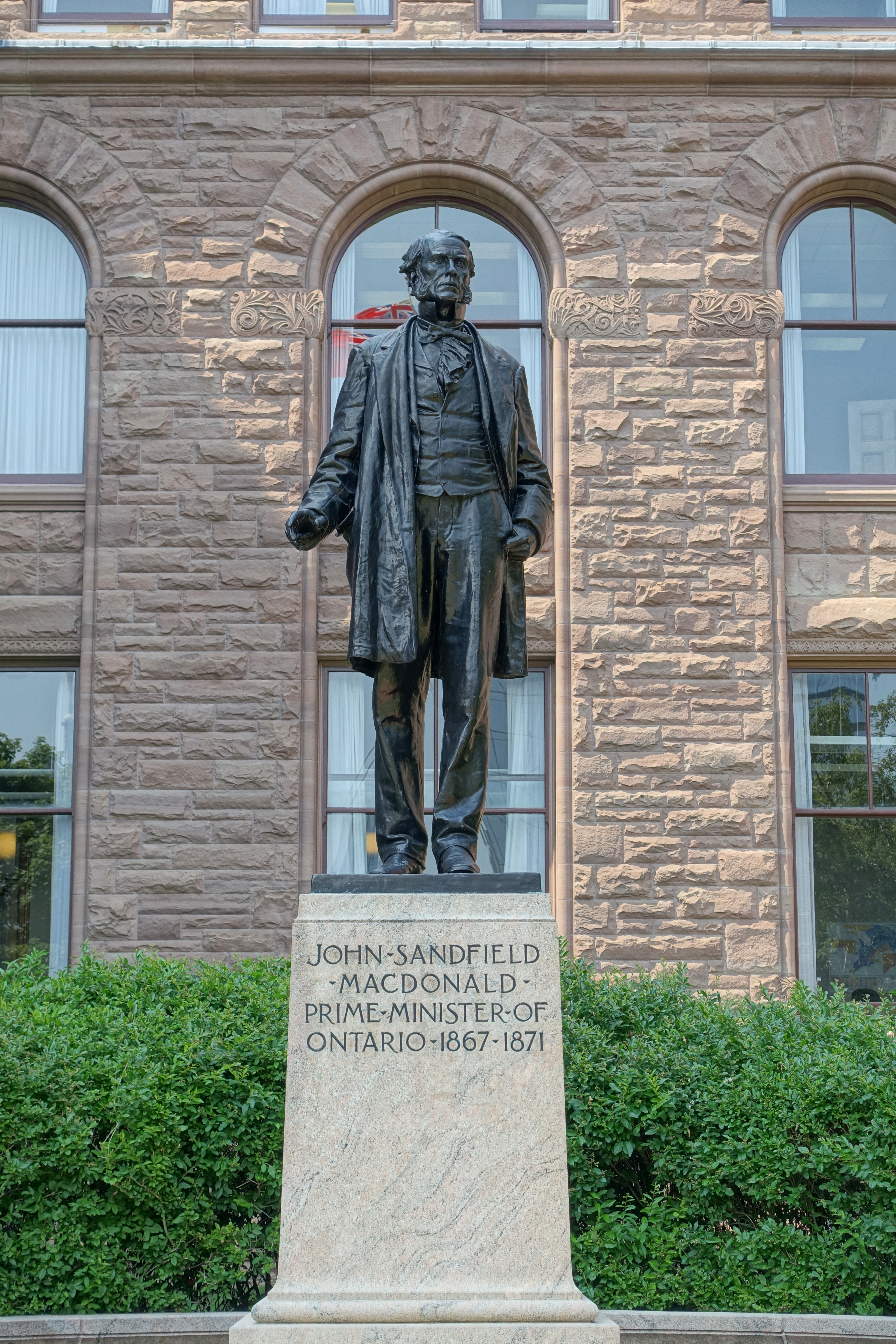 John Sandfield Macdonald Monument - located in front of the Ontario Legislative Building, Toronto, Ontario, Canada. Sculpted by Walter Seymour Allward in 1909.